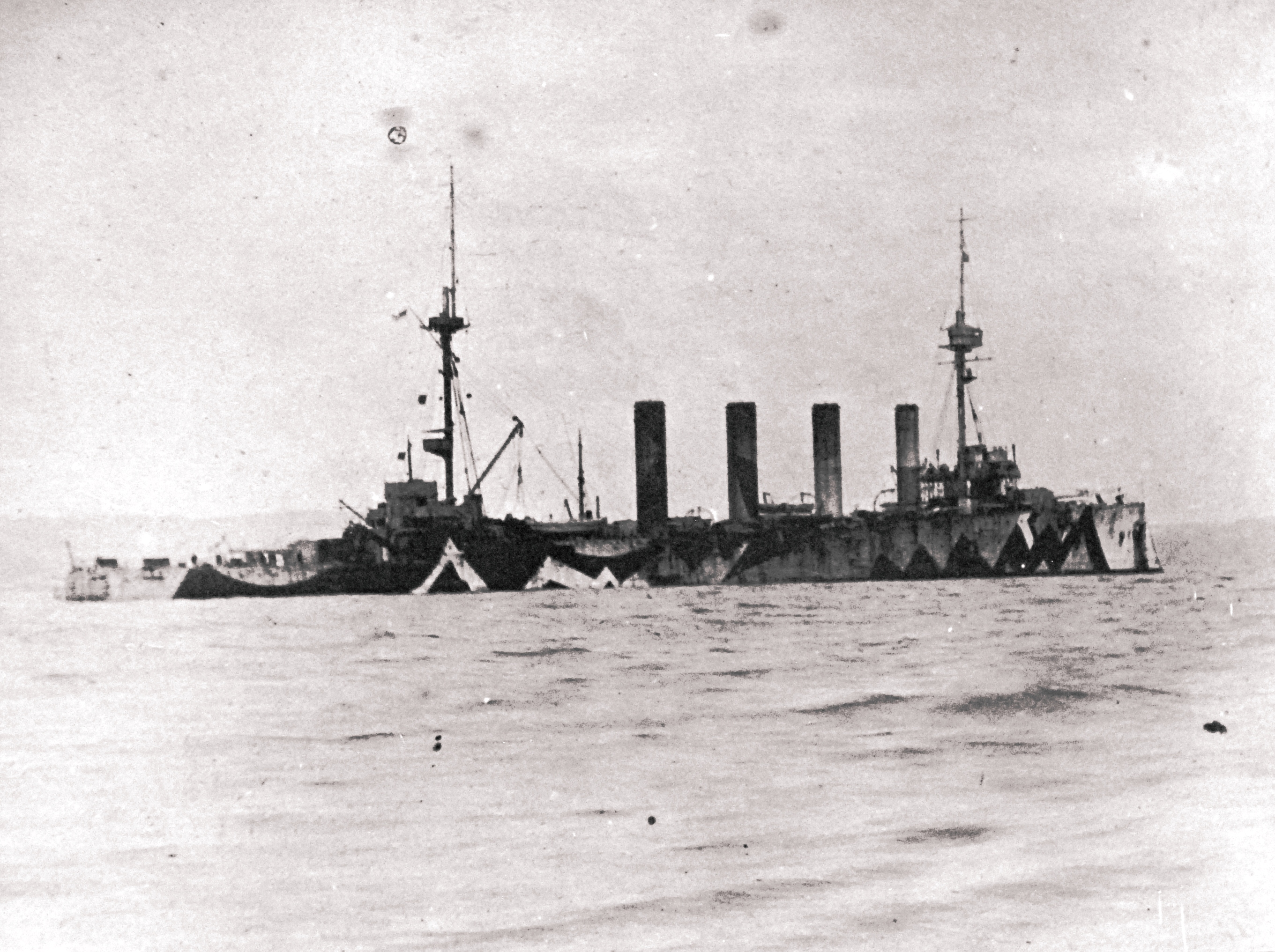 Lot 9609-1: Royal Navy (British) during the First World War. HMS King Alfred in Liverpool, England, after being mined by UB-86 April 11, 1918. She was sold for scrap in 1920. Collection was transferred from a British government source in 1920 to the Library of Congress. (9/18/2015).